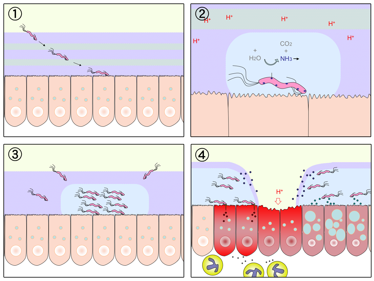 Diagram of gastric ulceration by H. pylori, with minimal annotation